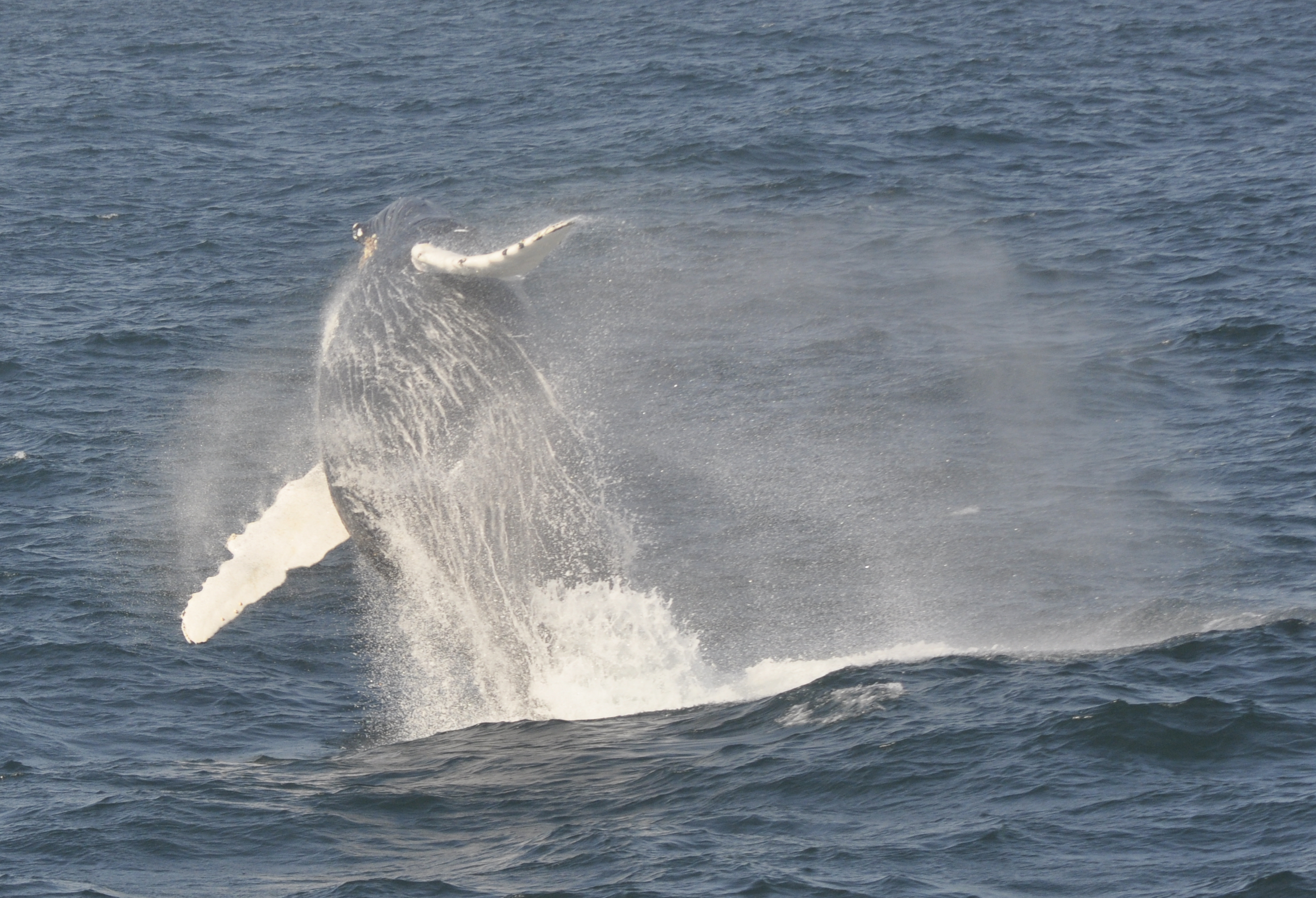 Humpback Whale - Bar Harbor, Maine